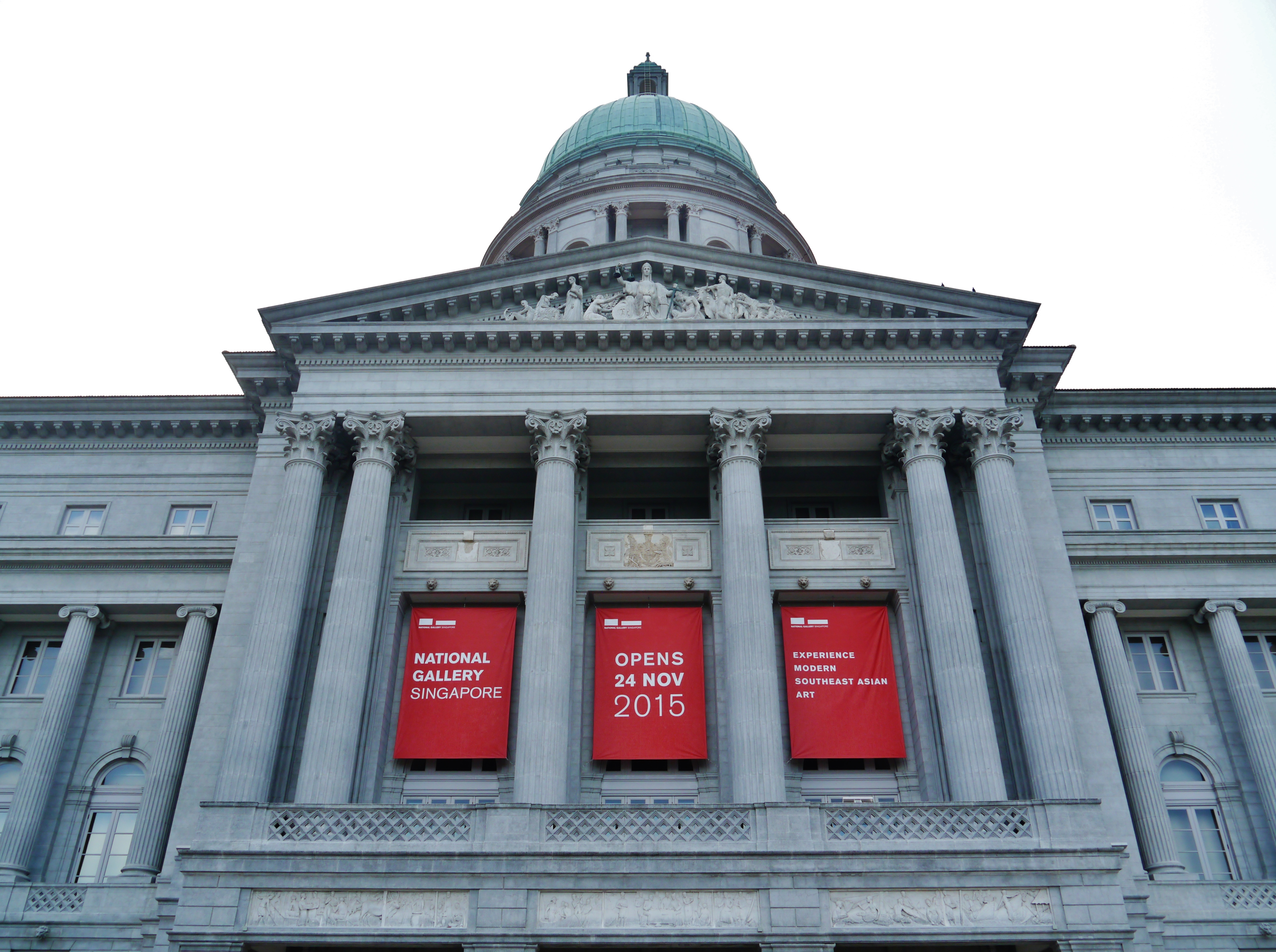 Old Supreme Court, Singapore